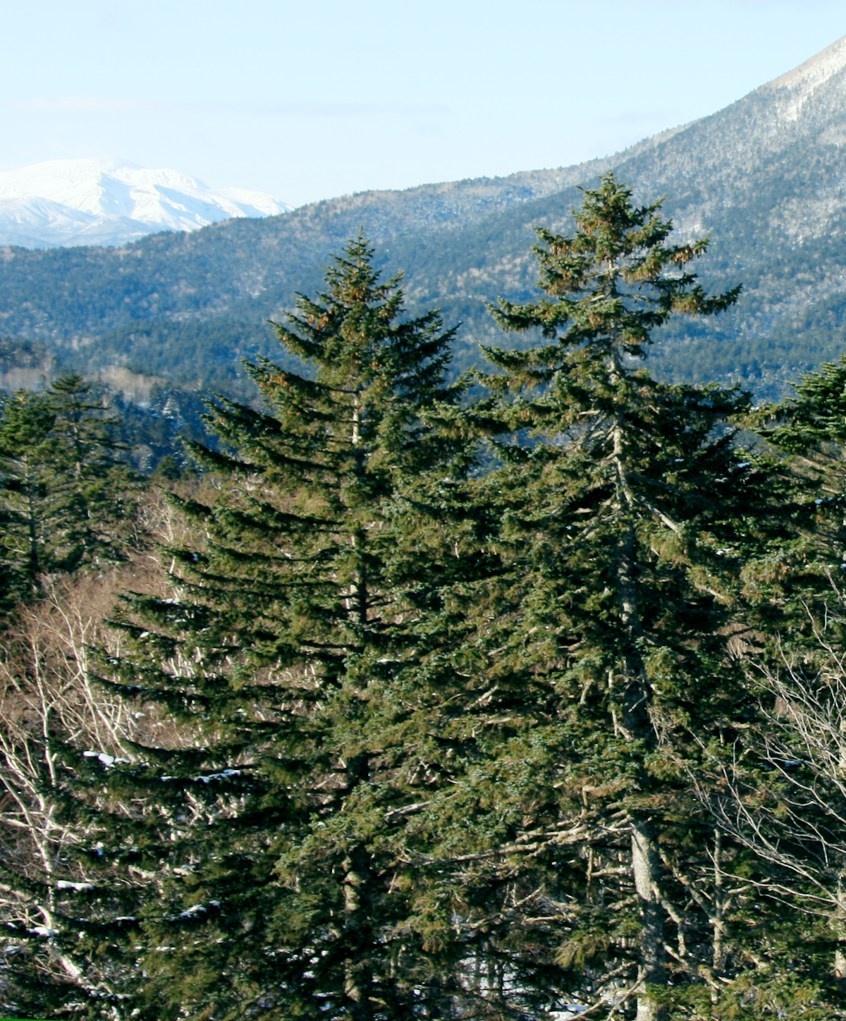 Picea jezoensis, Mt. Oakan, Kushiro, Hokkaido, Japan